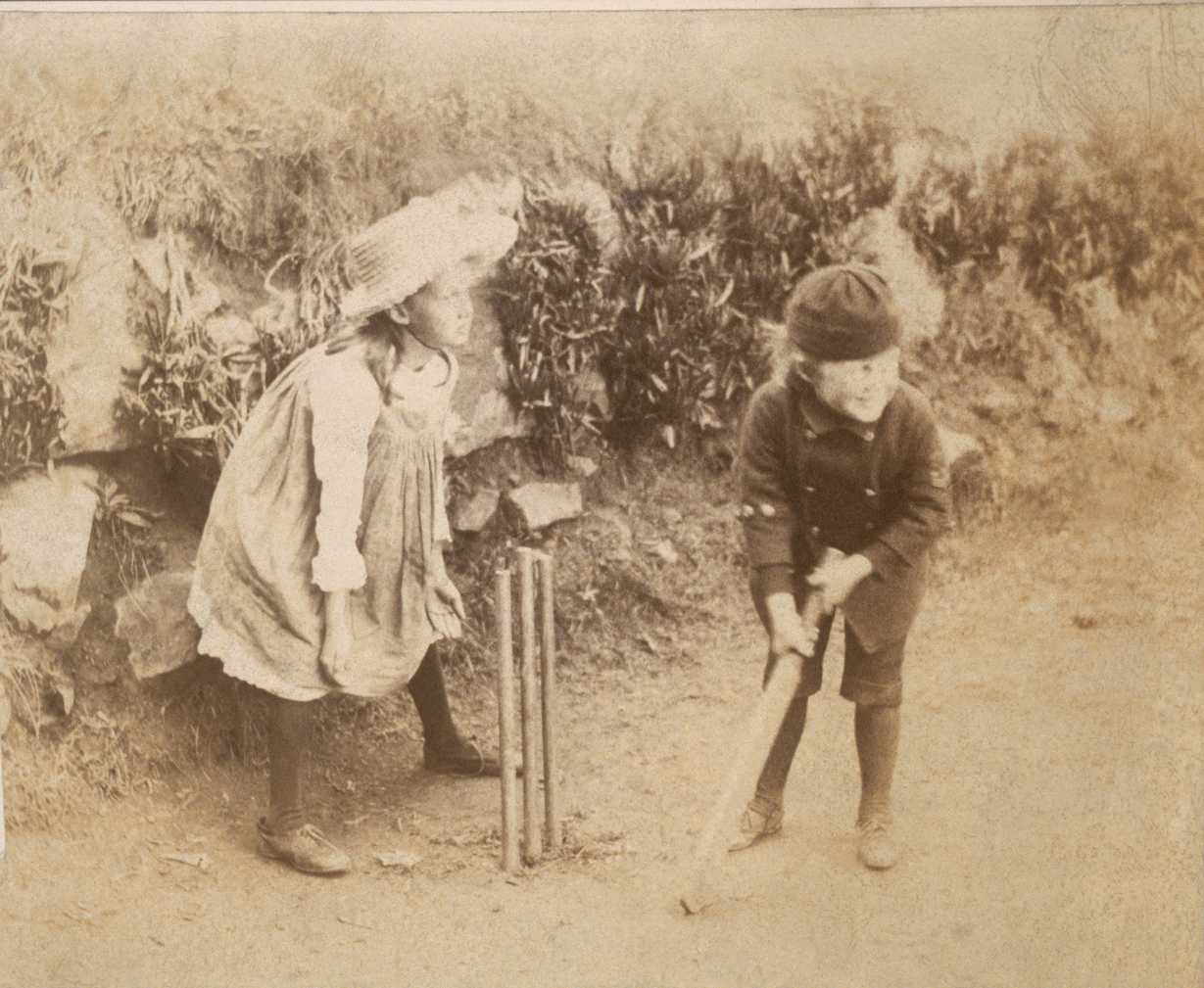 Virginia and Adrian Stephen playing cricket at Talland House in 1886